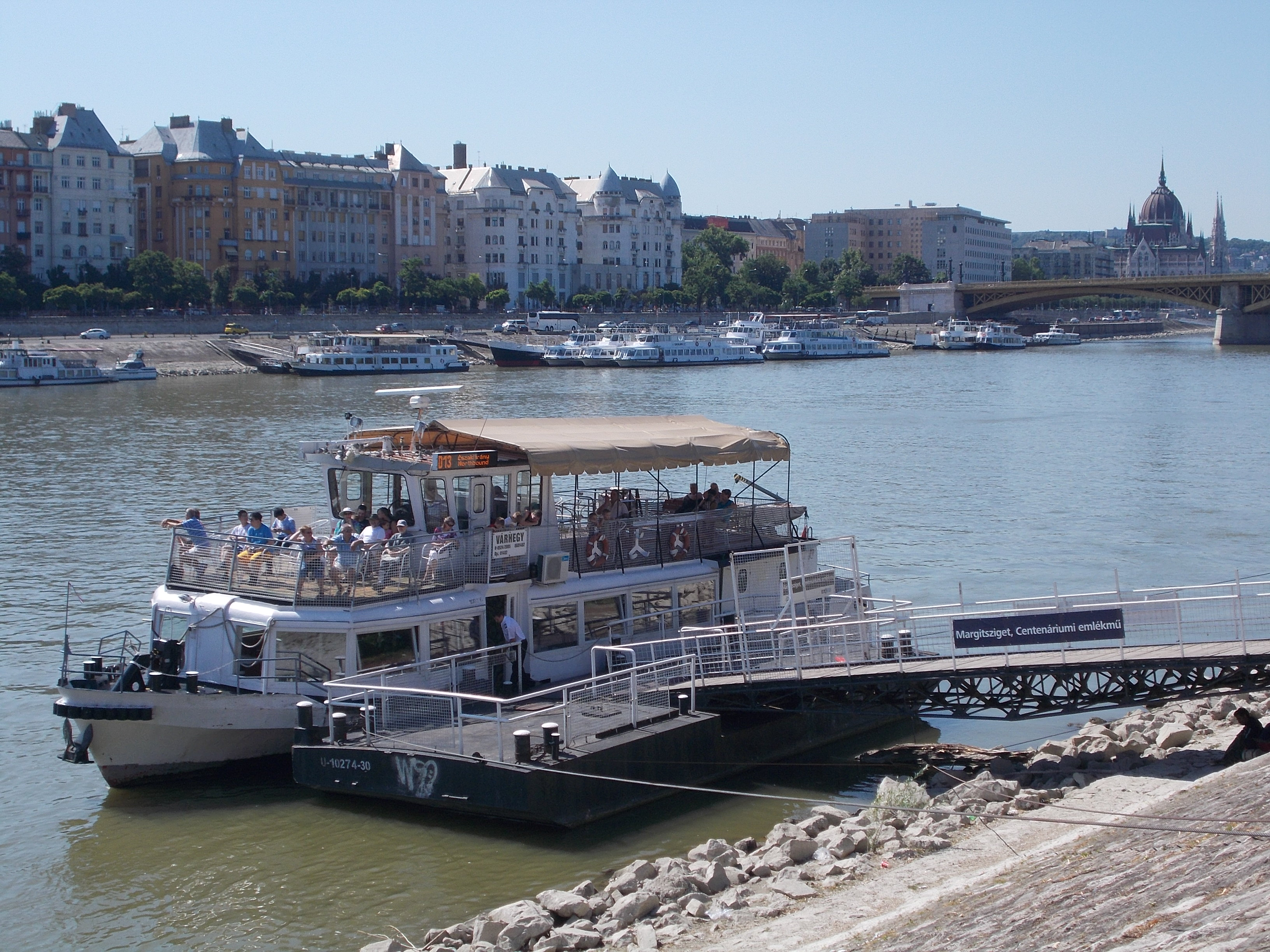 'Centenáriumi emlékmű' ship station. At back, Pest's bridgehead of Margaret Bridge - Margaret Island, Budapest District XIII., Hungary.